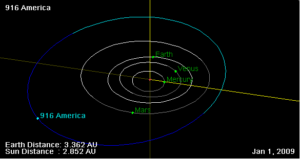 916 America orbit, and his position on 01 Jan 2009 (NASA Orbit Viewer applet)